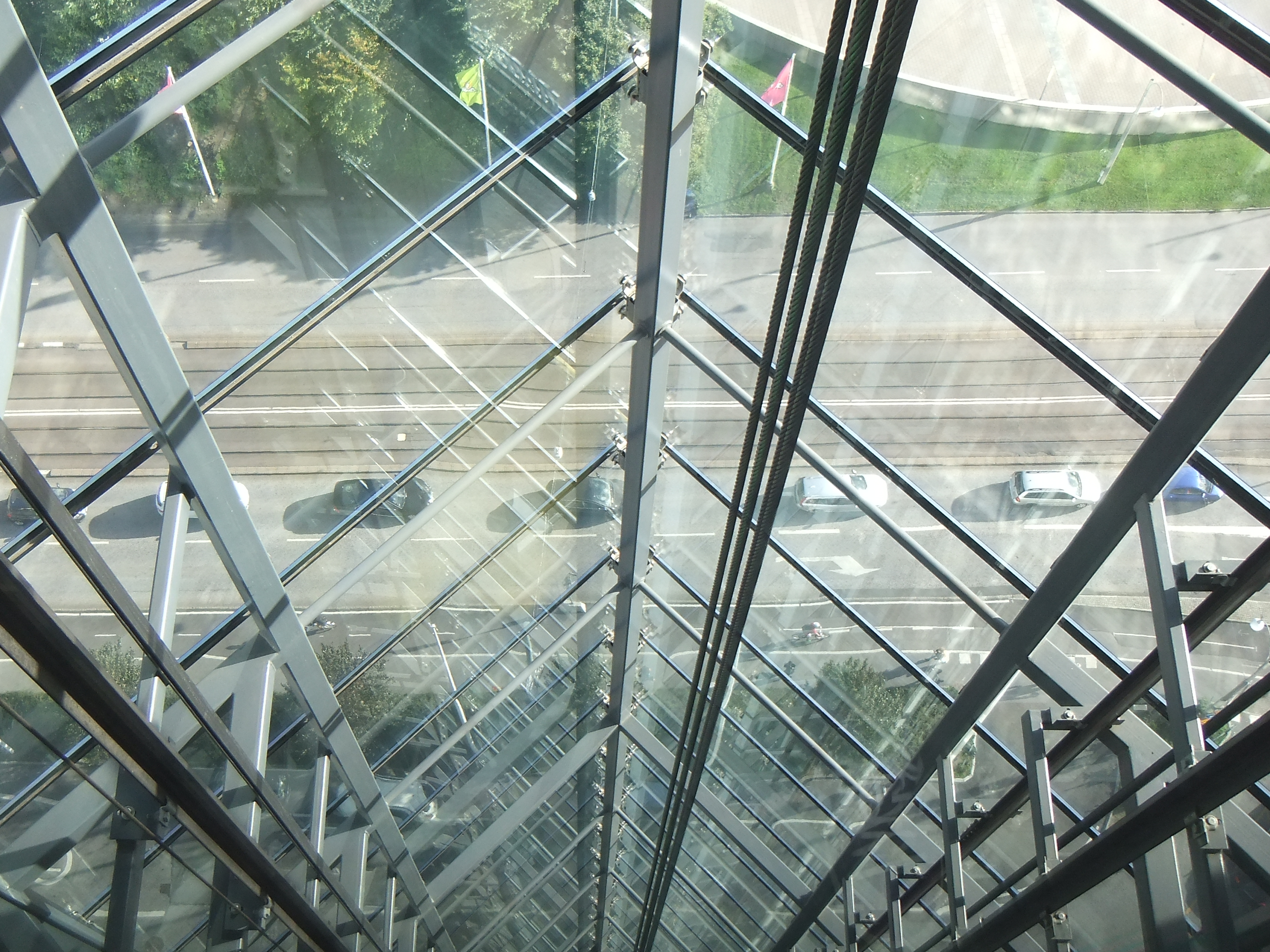 View from the elevator in the west tower of the Gothia Towers.